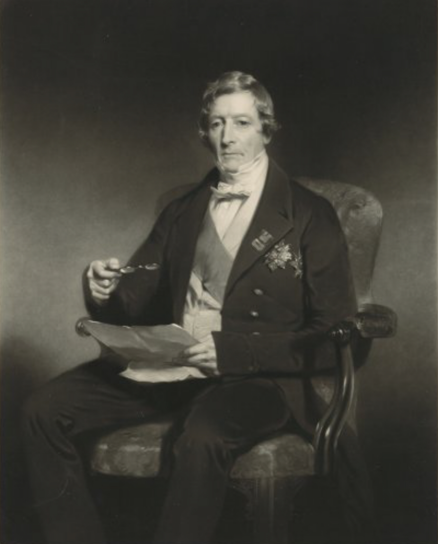 Sir Thomas Makdougall Brisbane (* 23. Juli 1773; † 21. Januar 1860), Gouverneur von New South Wales.